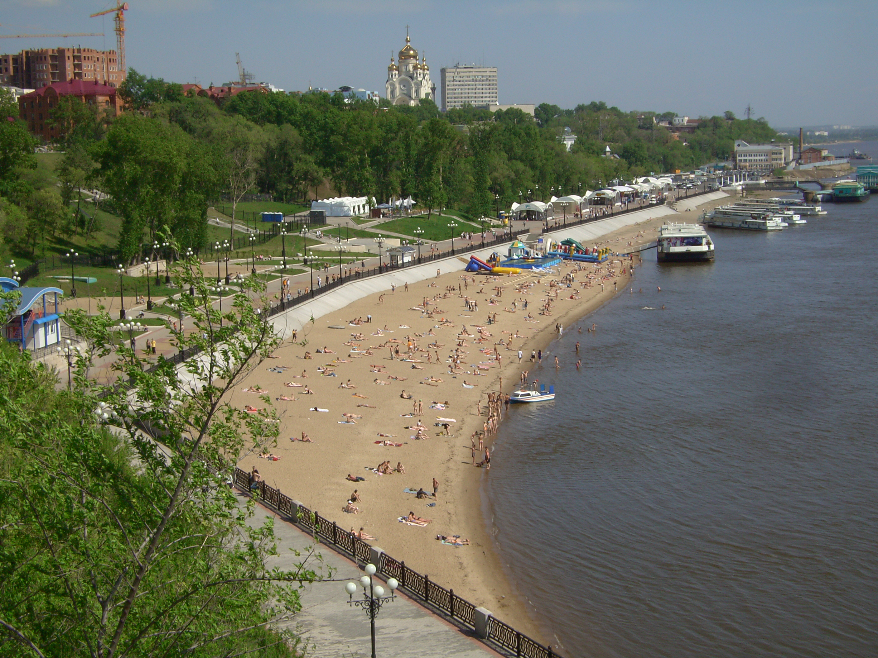 The town beach on the Amur River in Khabarovsk, seen from the cliffs